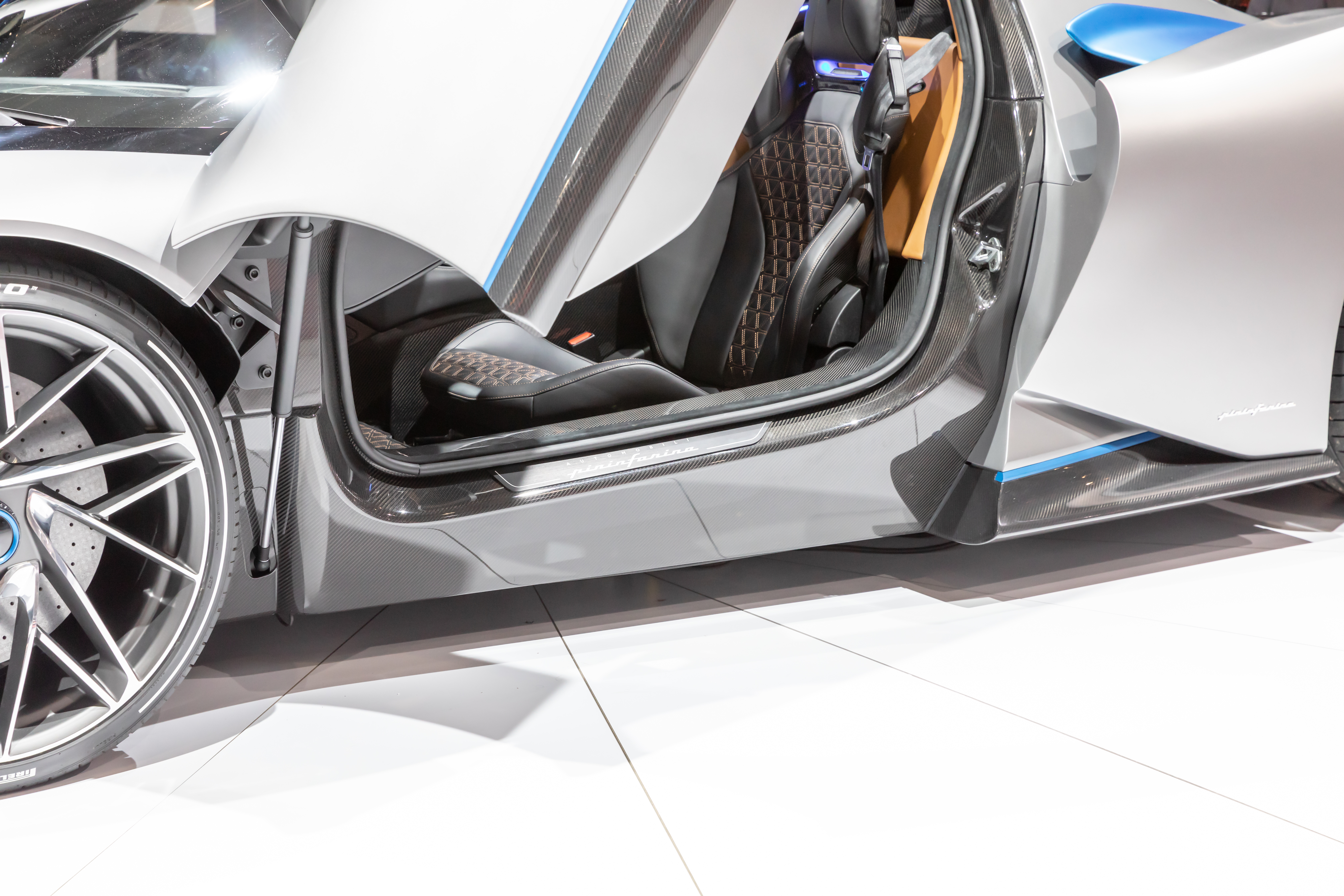 Pininfarina Battista at Geneva International Motor Show 2019, Le Grand-Saconnex